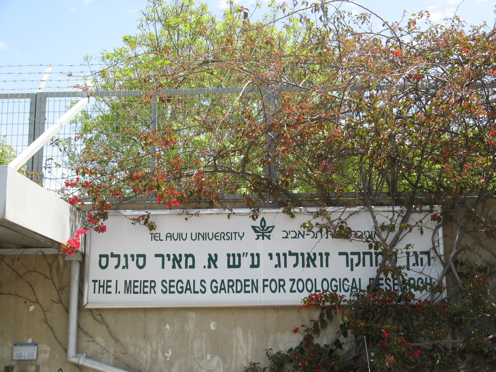 הגן הזואולוגי